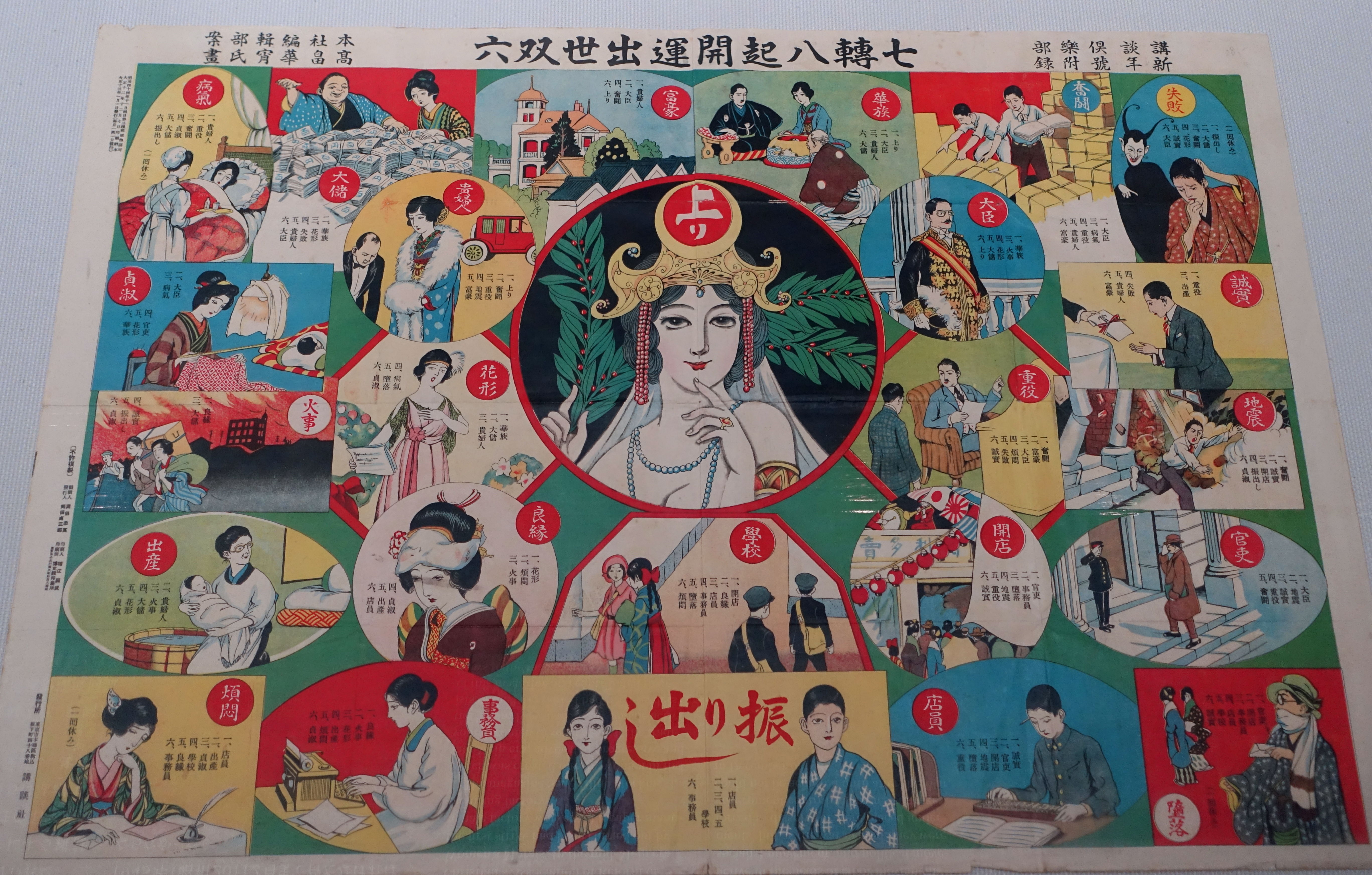 Print in the Edo-Tokyo Museum - Sumida, Tokyo, Japan.